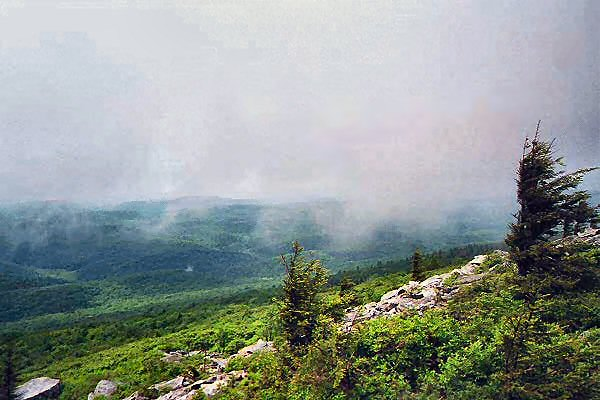 This image depicts the west side of the summit of Spruce Knob in West Virginia, US. The original photo was taken in 1998 by Kenneth E. Harker of Austin, Texas, who uploaded it from his site, . It was digitally enhanced by User:Black and White. Category:Images of West Virginia